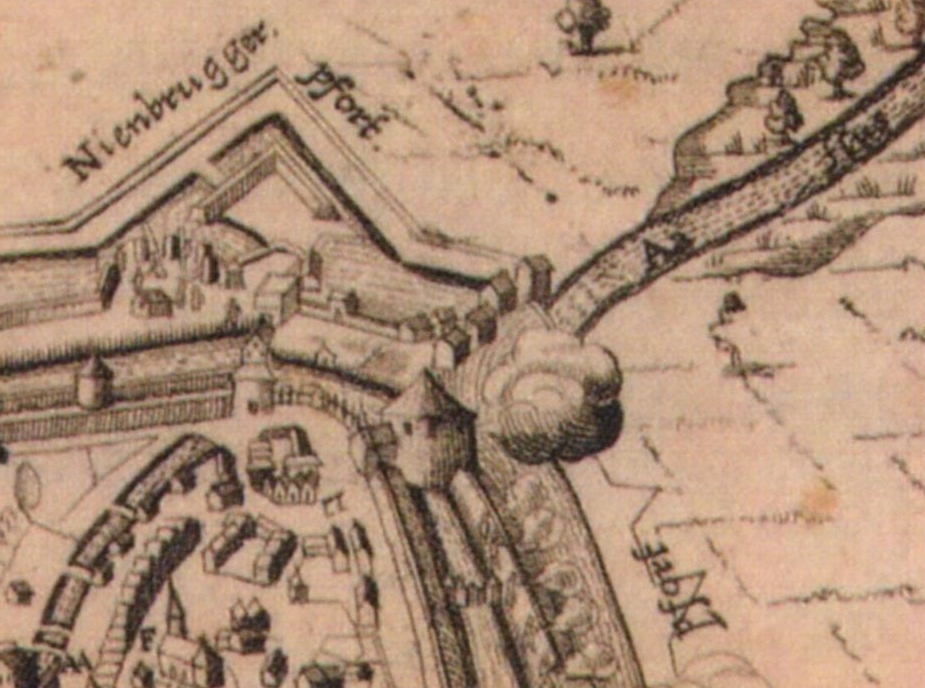 Detail of the "Zwinger" on a plan about the siege of Münster, Westphalia, Germany in 1657